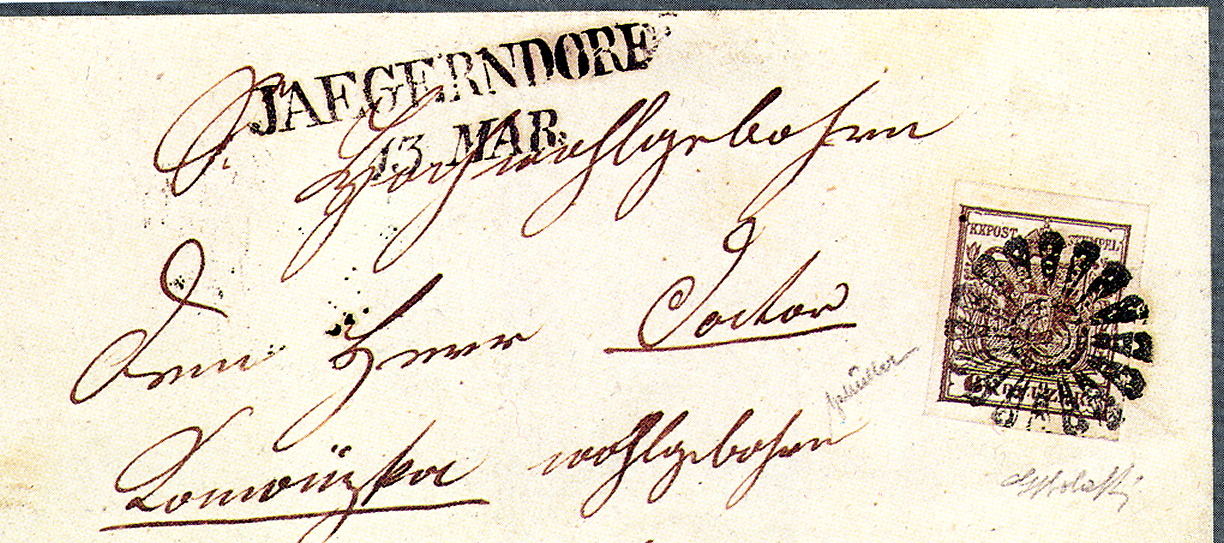 Stamp of Austria KK on cover, 6 kreuzer issue 1850, mute and linear postmarks of JAEGERNDORF (Krnov), Silesia, Czech Republic. Mueller 85x30 Points. Sign. Bolaffi. Cover sold 11000 SF in 1981.